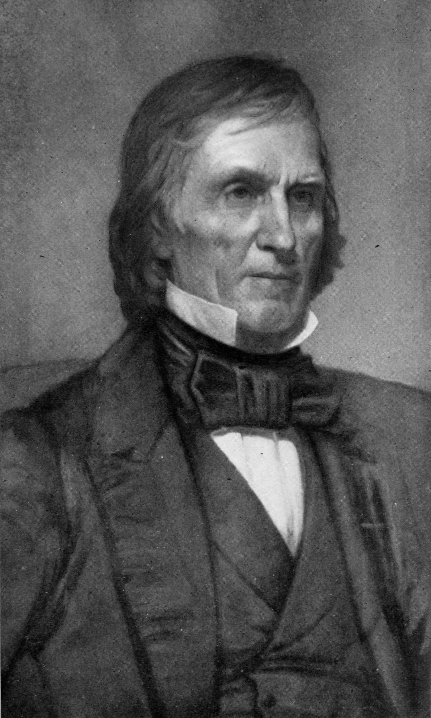 Portrait by F. B. Carpenter of Yale University Prof. Josiah Willard Gibbs, Sr. (1790-1861). The original is owned by the Gallery of Fine Arts, at Yale University.